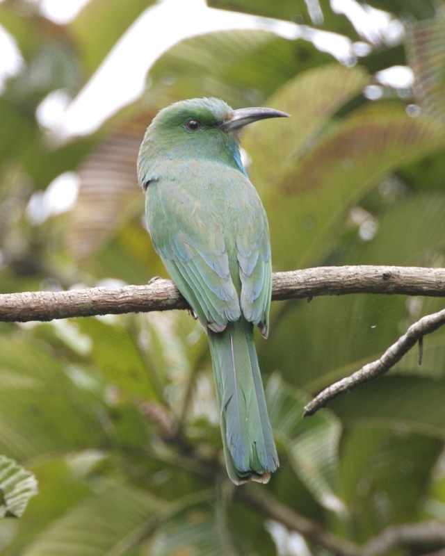 Blue-bearded Bee-eater Nyctyornis athertoni Location: Kazaringa, Assam, India April 15, 2008